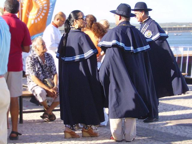 Portuguese fado singer Cidália Moreira - Confraria dos Gastrónomos do Algarve - 2006 Guinness Record (Portimao, Algarve, Portugal)